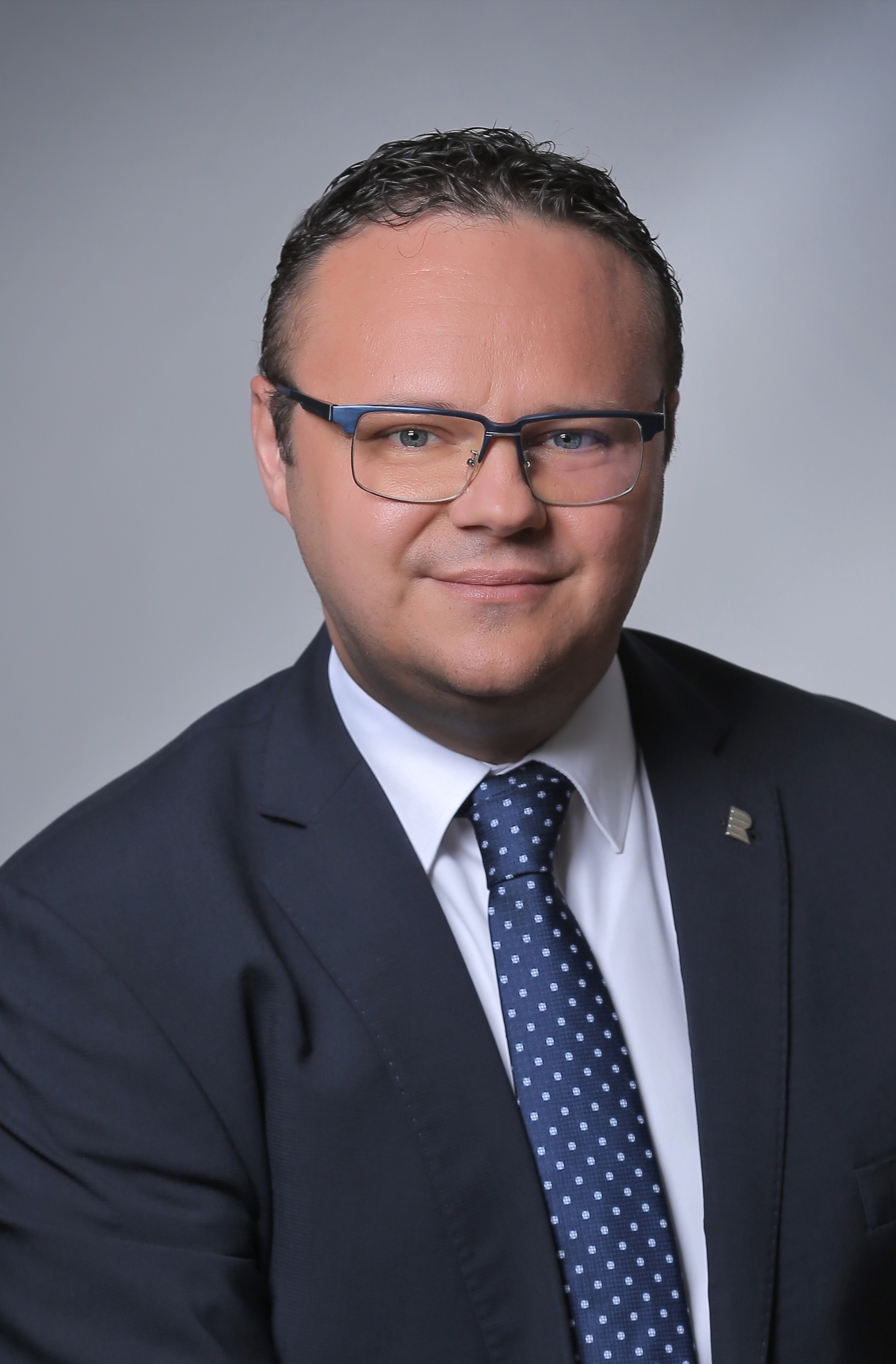 Portrait photo of Rene Zavoral, General Manager of Czech Radio